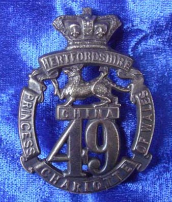 Regimental Cap Badge